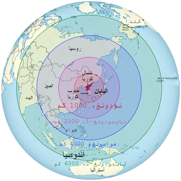 Estimated maximum range of some North Korean missiles based on data from .